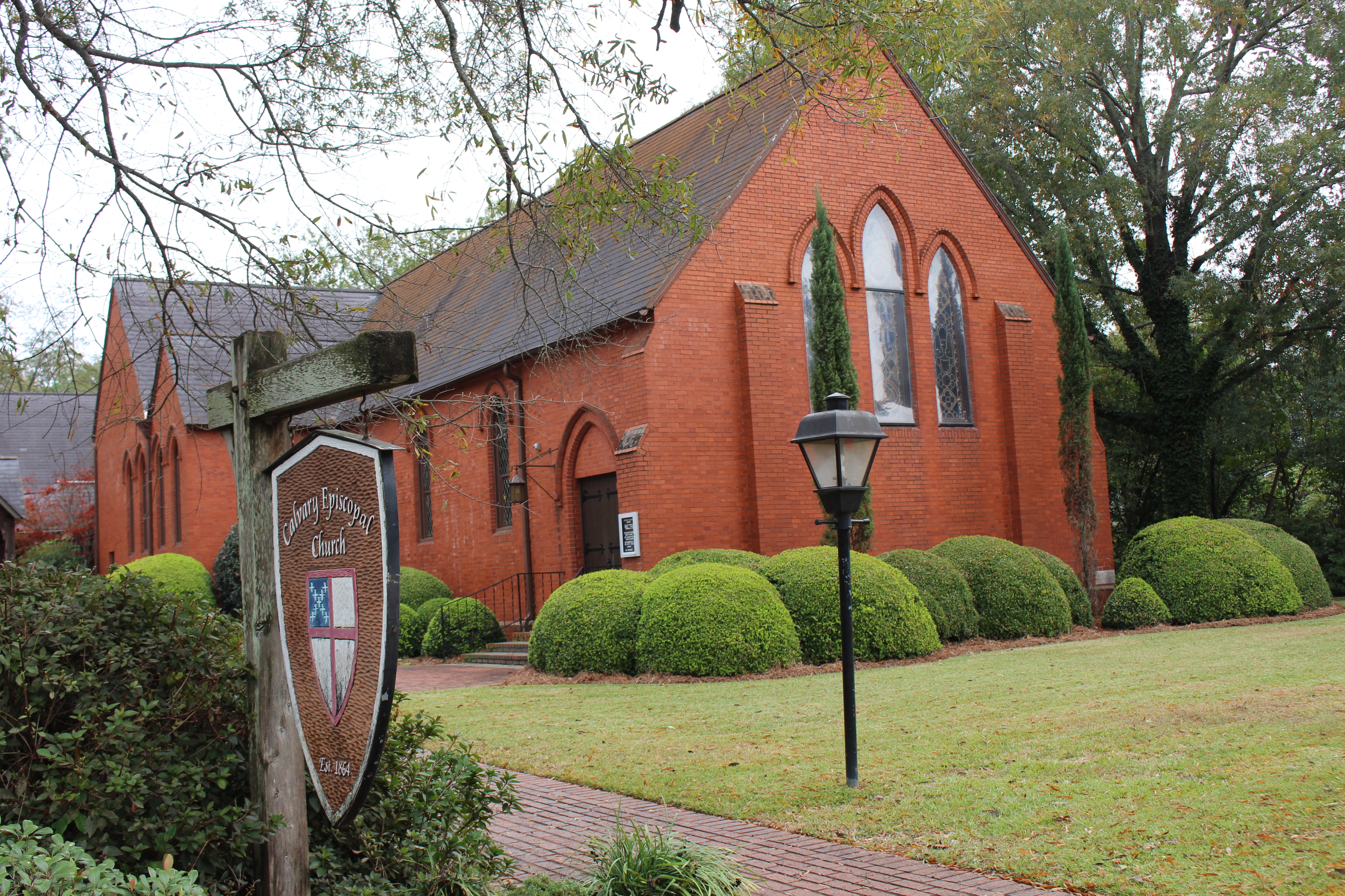 Calvary Episcopal Church, 408 S. Lee St., Americus, Sumter County, Georgia